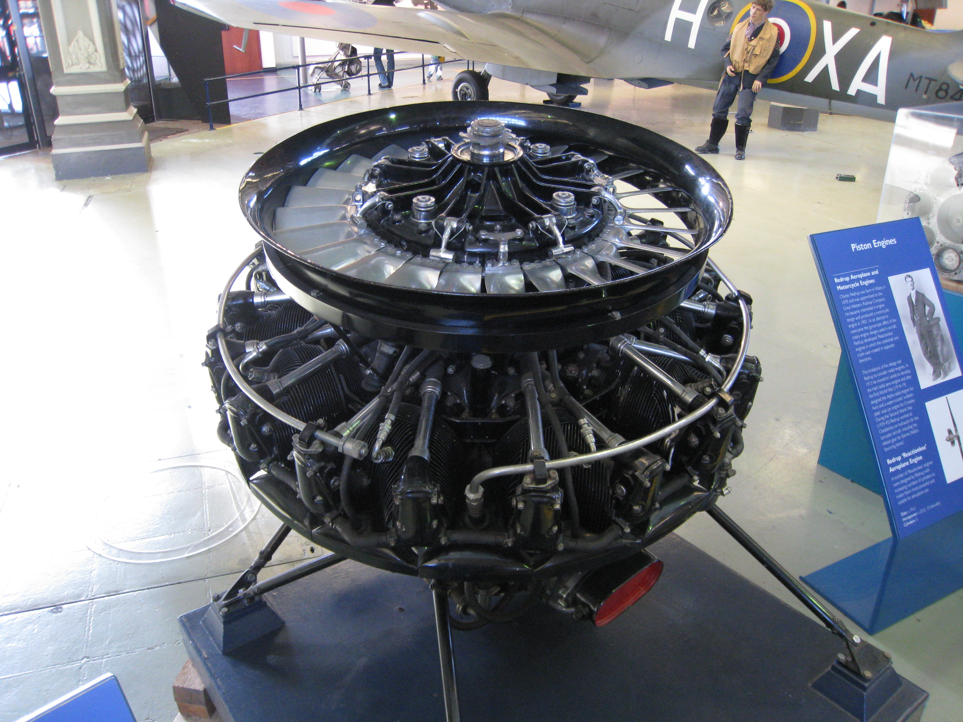 Alvis Leonides radial aero engine on display at the Museum of Science and Industry, Manchester